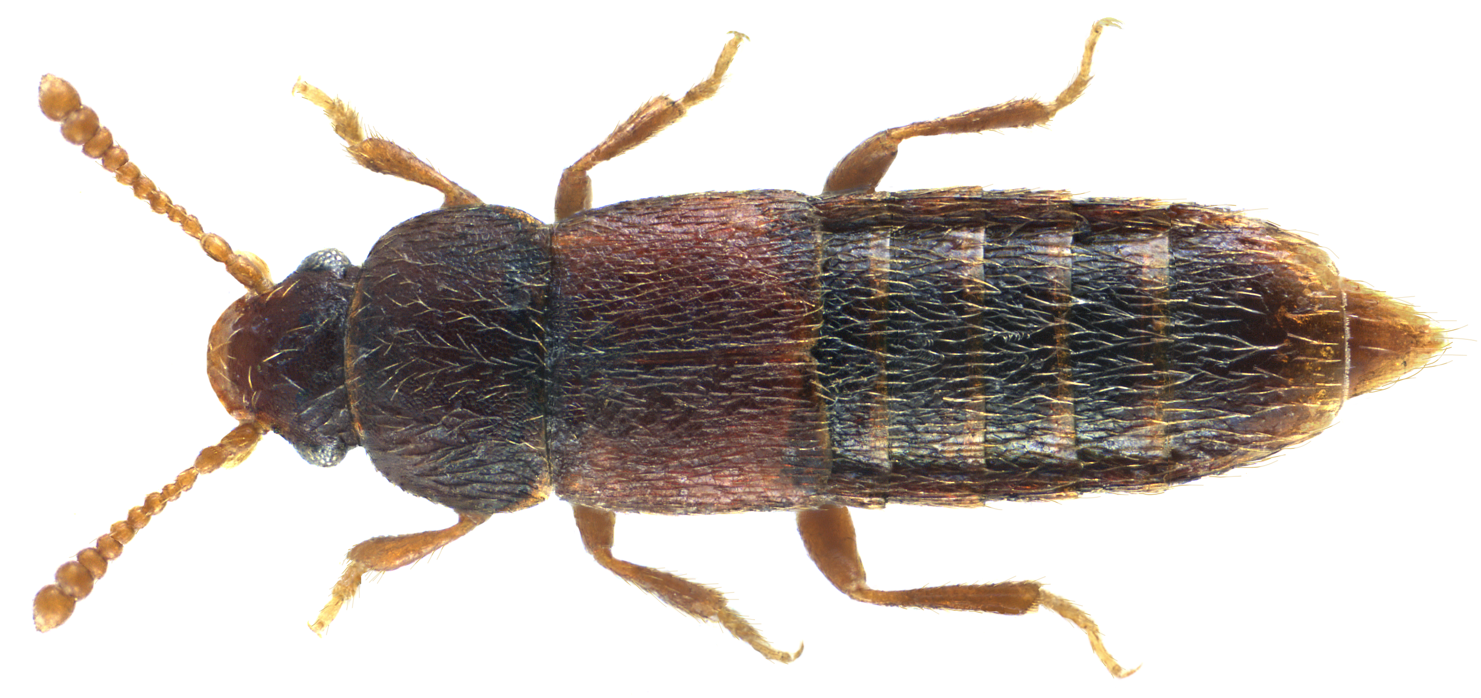 Family: Staphylinidae Size: 2,0 mm (0,85-1,10 mm) Origin: Europe Ecology; under bark of trees Location: Germany, Bavaria, Upper Franconia, Kulmbach leg.det. U.Schmidt, 7.IV.1976 Photo: U.Schmidt, 2013